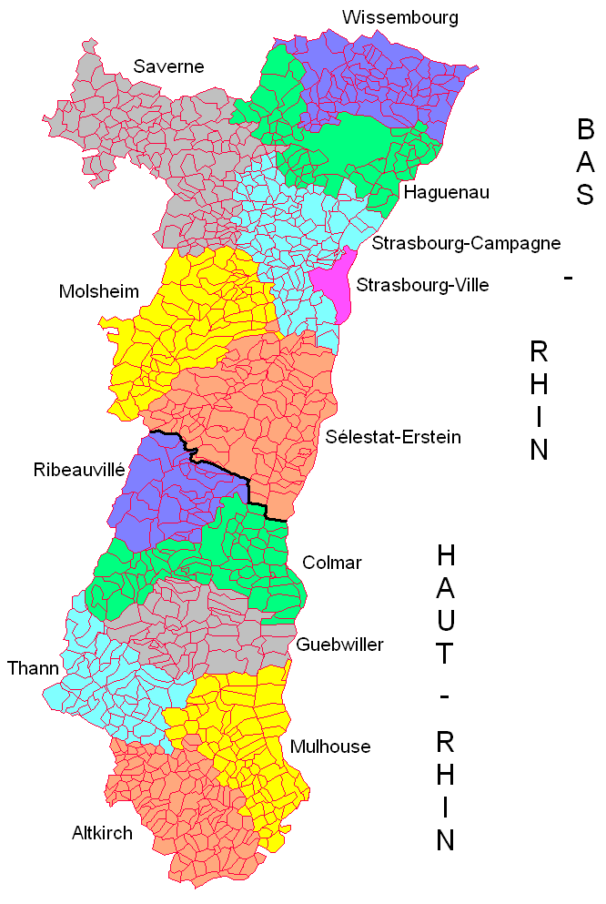 Administrative map of Alsace showing départements, arrondissements and communes. Created by myself.